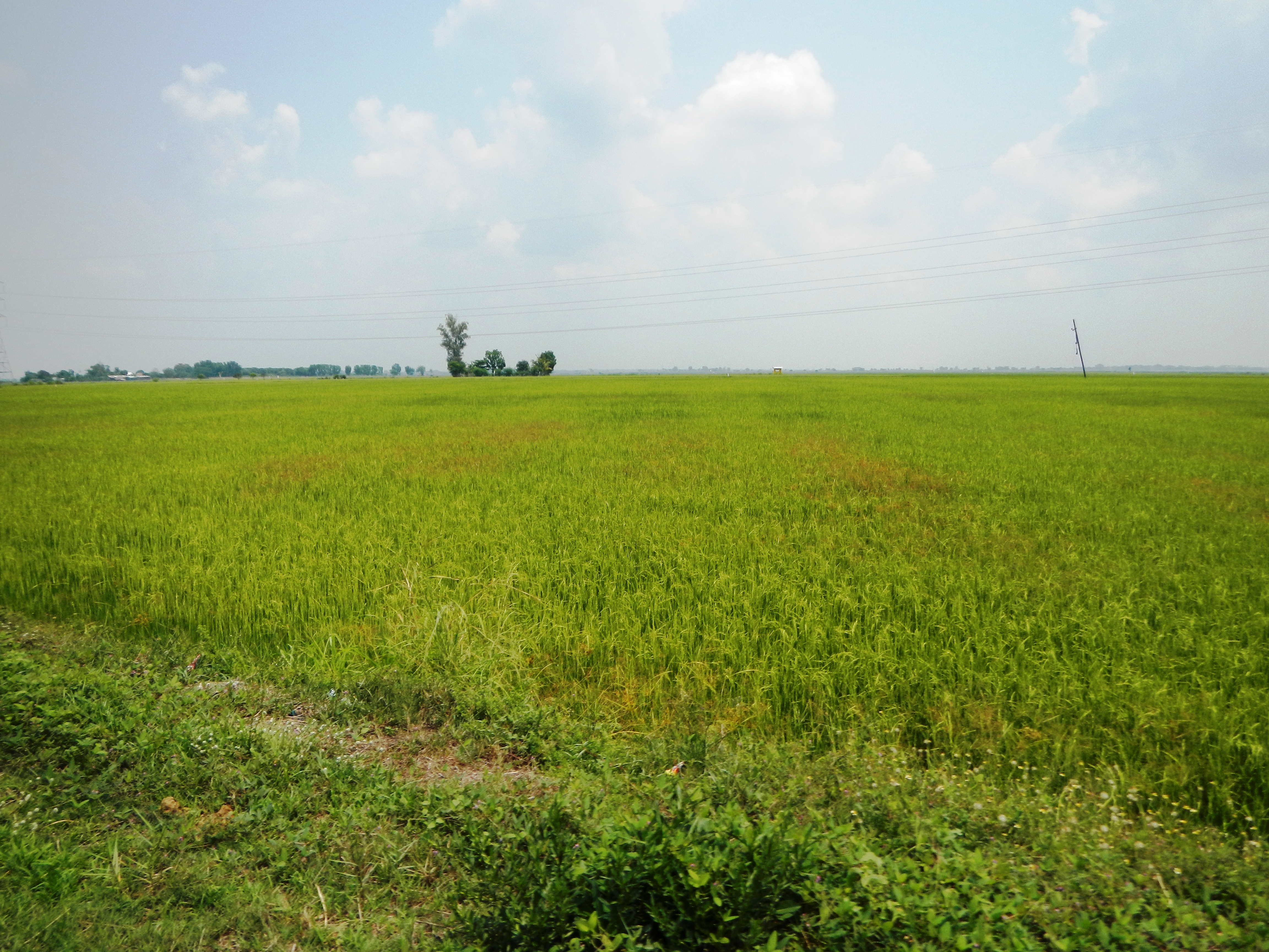 KM 63 SL 6 Paddy fields of Pampanga in [1], Candaba, Pampanga: (Baliuag-Candaba-San Luis Road, in neighbors Barangays of Barit and Talang, Candaba, Pampanga, Barit Welcome arch fromTalang).